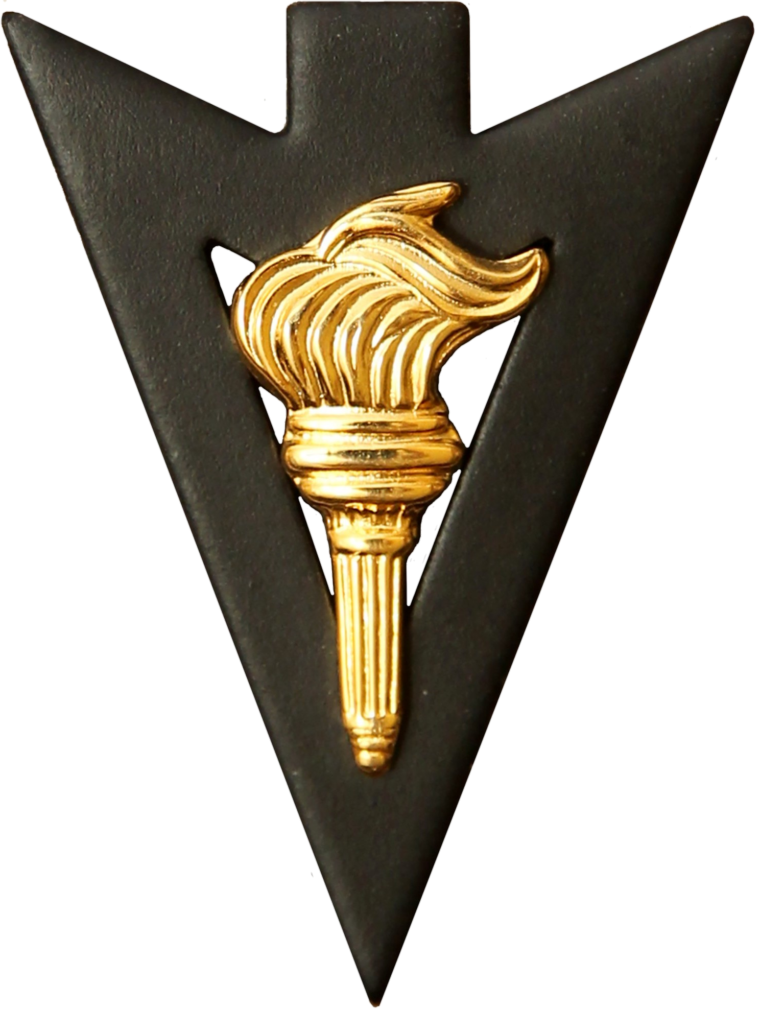 U.S. Army Reserve Officers' Training Corps Recondo Badge